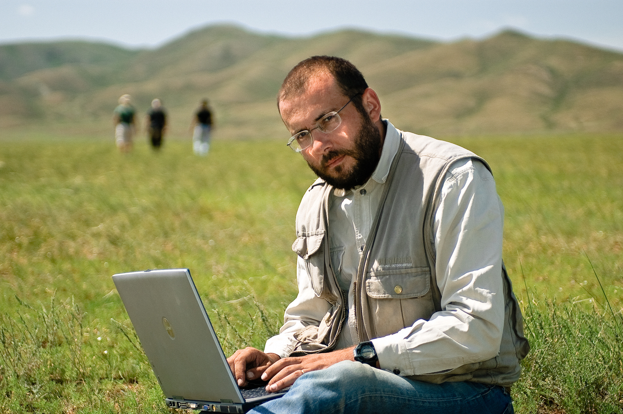 Miroslav Bobek – director of Prague Zoo